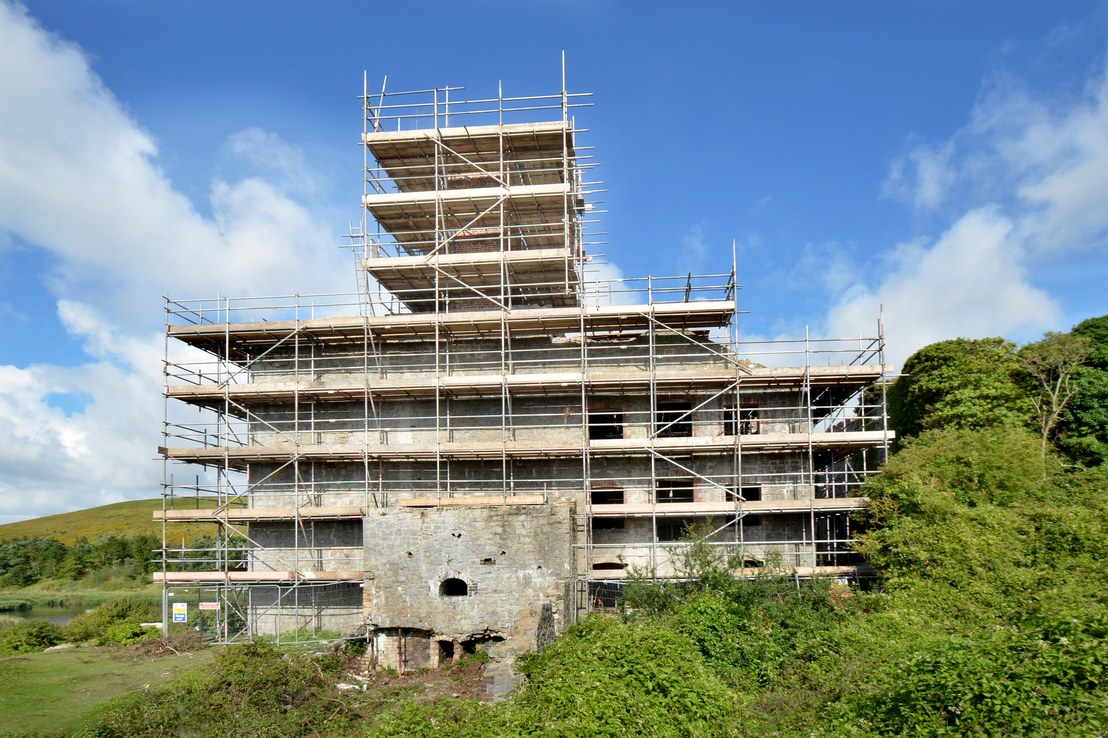 Aberthaw Limeworks under restoration showing scaffolding provided by local scaffolding company CASS Hire & Sales Ltd